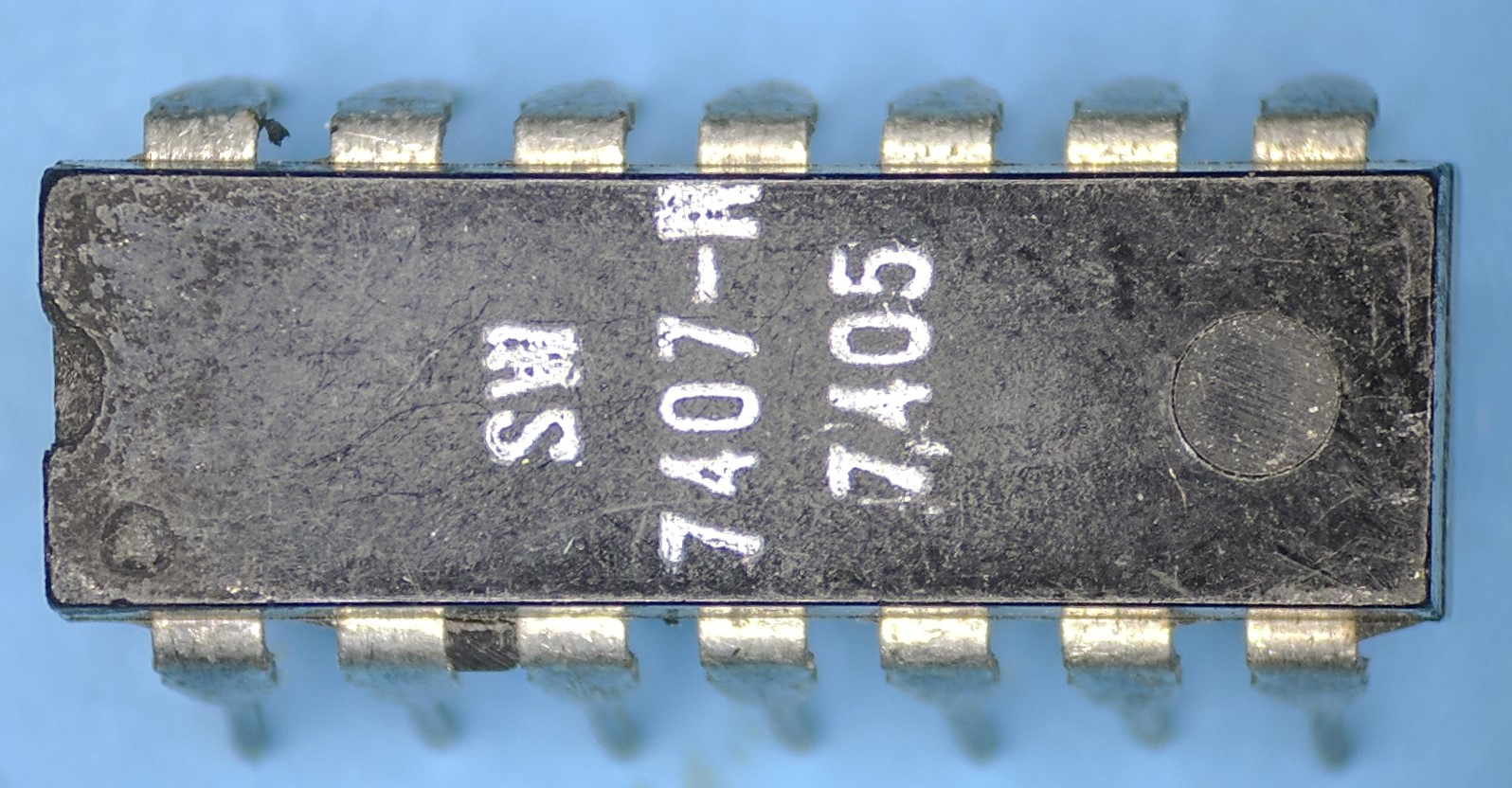 Top of package of a Stewart-Warner 7407 chip, datecode 7405.